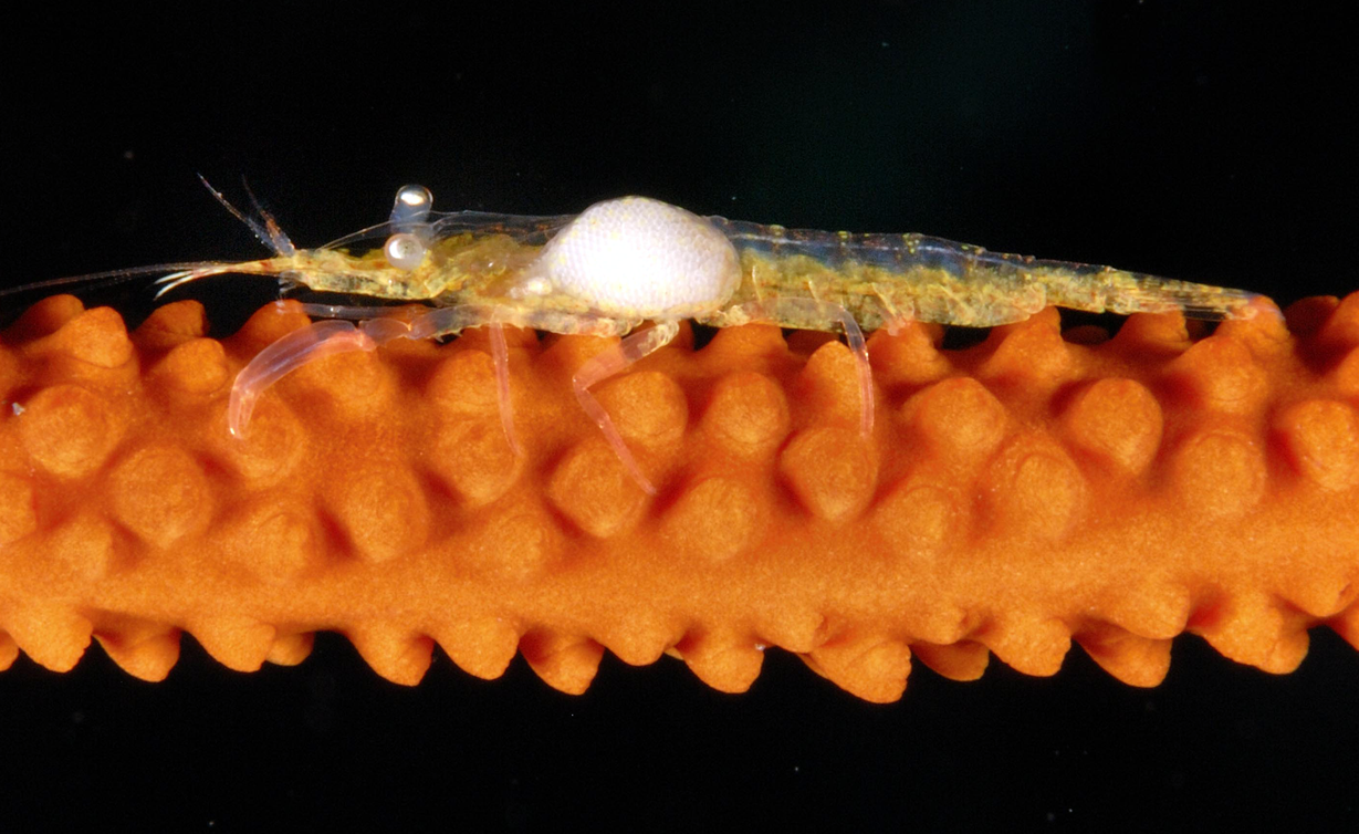 Miopontonia yongei Bruce, 1985 (Caridea: Palaemonidae) from Bali, Indonesia (new host locality record, previously known from Australia and southern Japan), with unidentified bopyrid (host previously not recorded with any bopyrid). Photograph used by permission of Rokus Groeneveld.